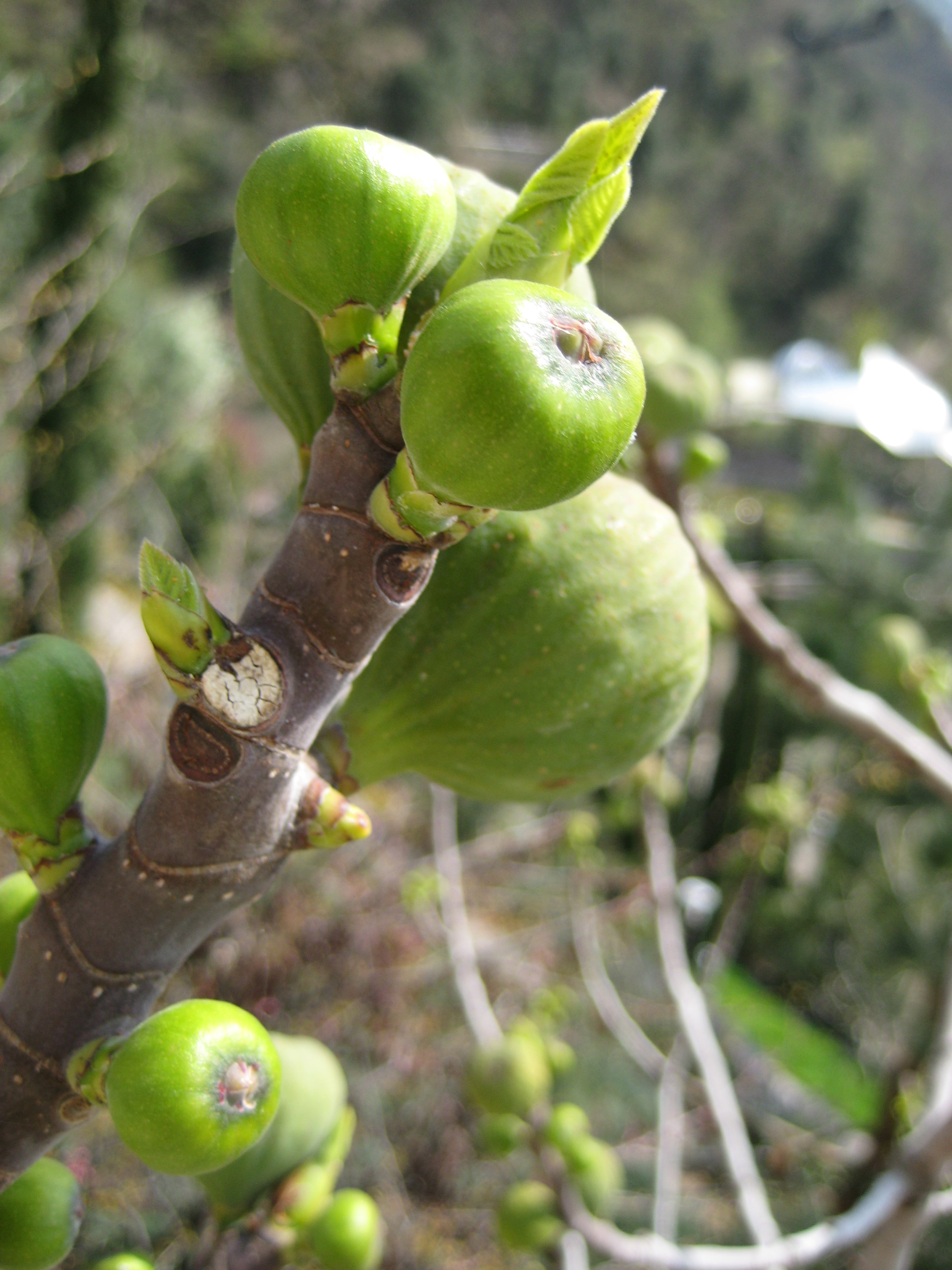 Common fig, Trauttmansdorff Castle